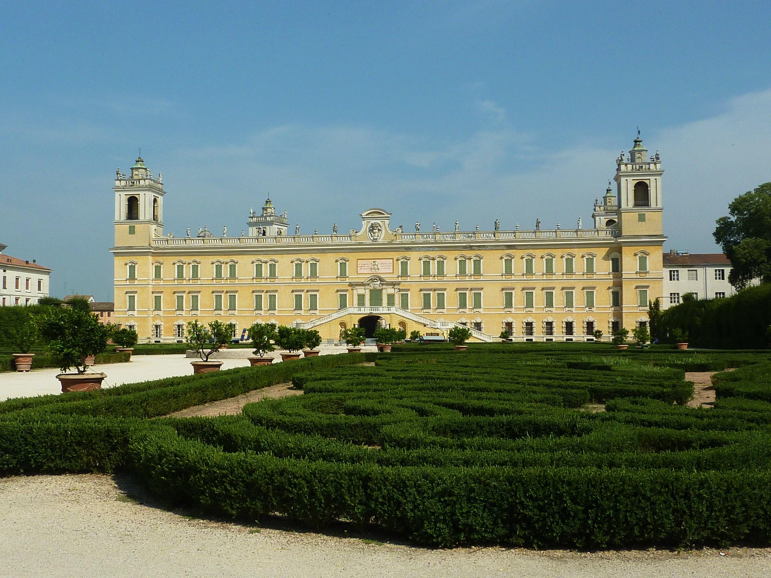 Baroque parterre gardens of the Ducal Palace of Colorno - in Parma, Emilia-Romagna.